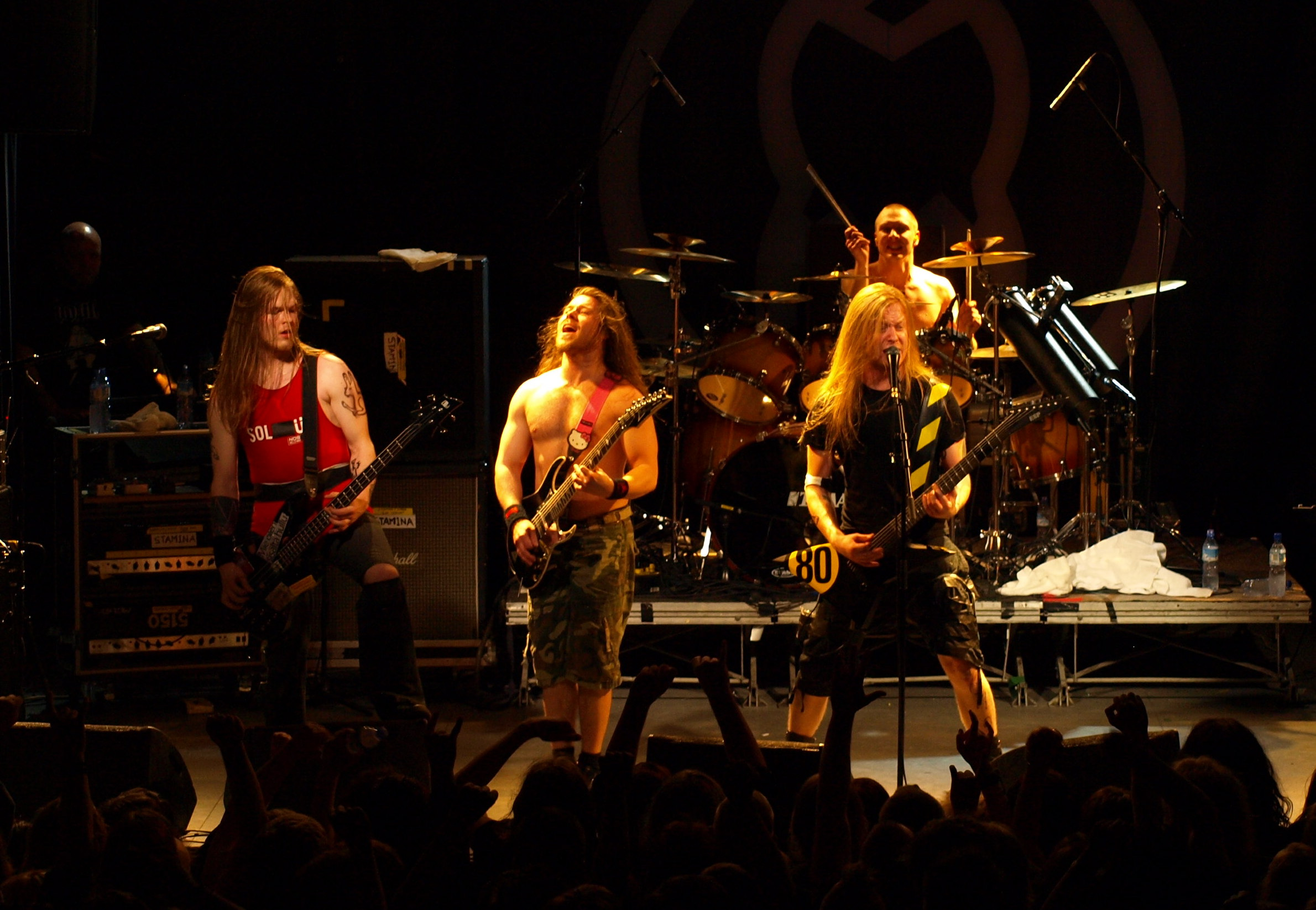 Finnish thrash metal band Stam1na live at Nosturi, Helsinki